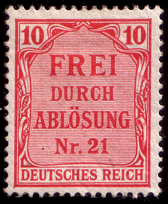 «Frei durch Ablösung»: LOCAL OFFICIAL (counting postage) stamp for Prussia issued by German Empire, 10 pfennigs, 1903. “Nr. 21” refers to the district of Prussia. Scott #OL4.